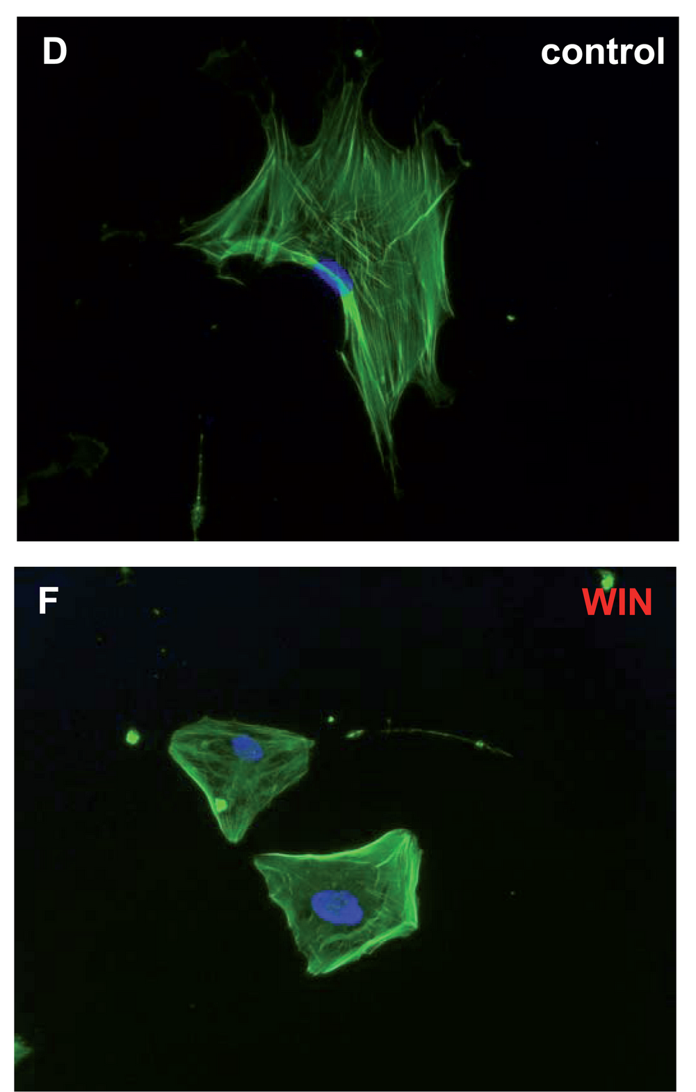 Figure 8. Cannabinoid receptor activation reduces invasiveness. A significant reduction in the number of invaded cells was seen after treatment with WIN (p = 0.0081; A). A near-complete reversal of the reduced invasiveness was seen when the cells were pre-incubated with AM251 or a combination of AM251 and AM630 (A). This was not found with AM630 alone (A). WIN induced a significant decrease in MMP-2 levels (p = 0.026; B) which was partially reversible by a combination of AM251 and AM630 (B). Actin cytoskeleton staining with phalloidin demonstrated that control PSC showed the normal cellular structure (C&D) but that WIN induced a more round and smaller PSC phenotype (E&F). Original magnification: x 40 (C&E), x 80 (D&F). Nuclear stain: DAPI. White bars: control; black bars: WIN55,212-2±AM251/AM630. Data are shown as mean±SEM.